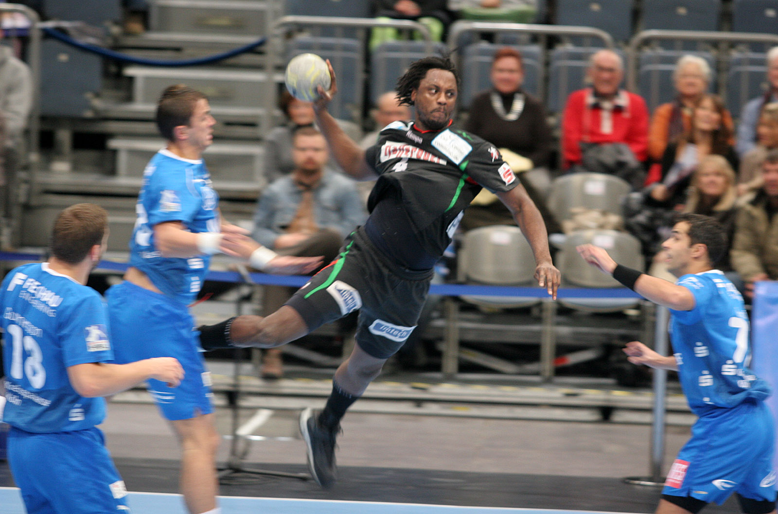 Damien Kabengele, Handballplayer from SC Magdeburg (Germany). November 19th, 2008 in Lanxess Arena of Cologne